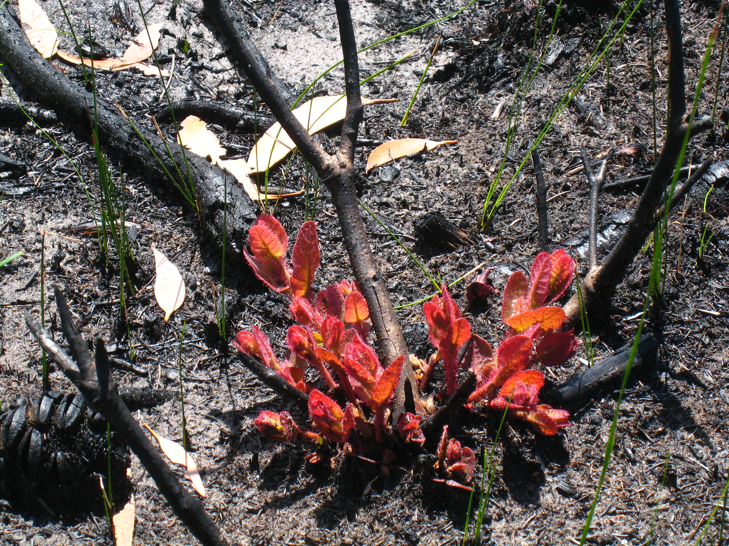 New growth after a fire. Angophora hispida, Ku-ring-gai Chase NP, NSW